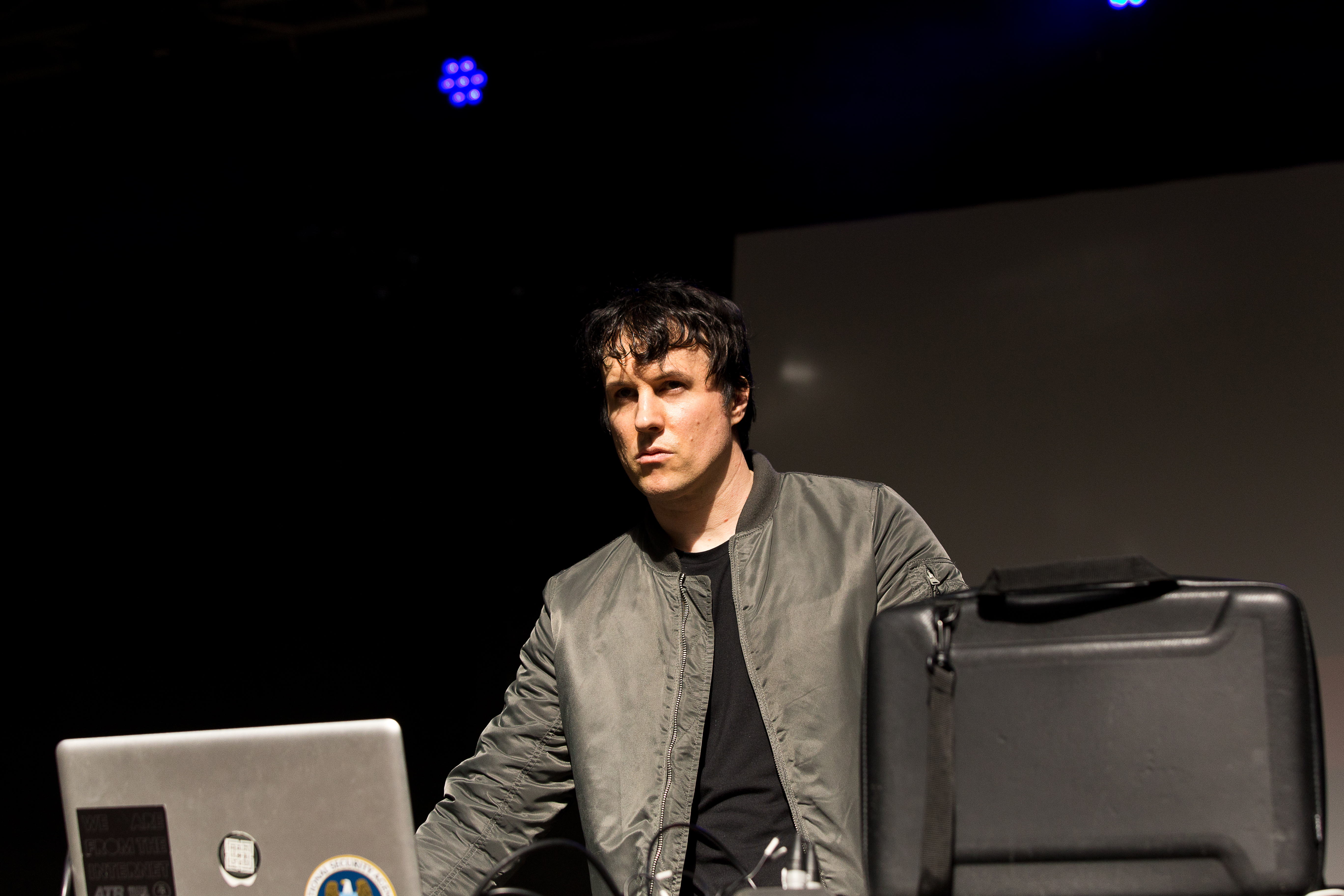 The German musician Alec Empire at the Nocturnal Culture Night 11 2016 in Deutzen/Germany.